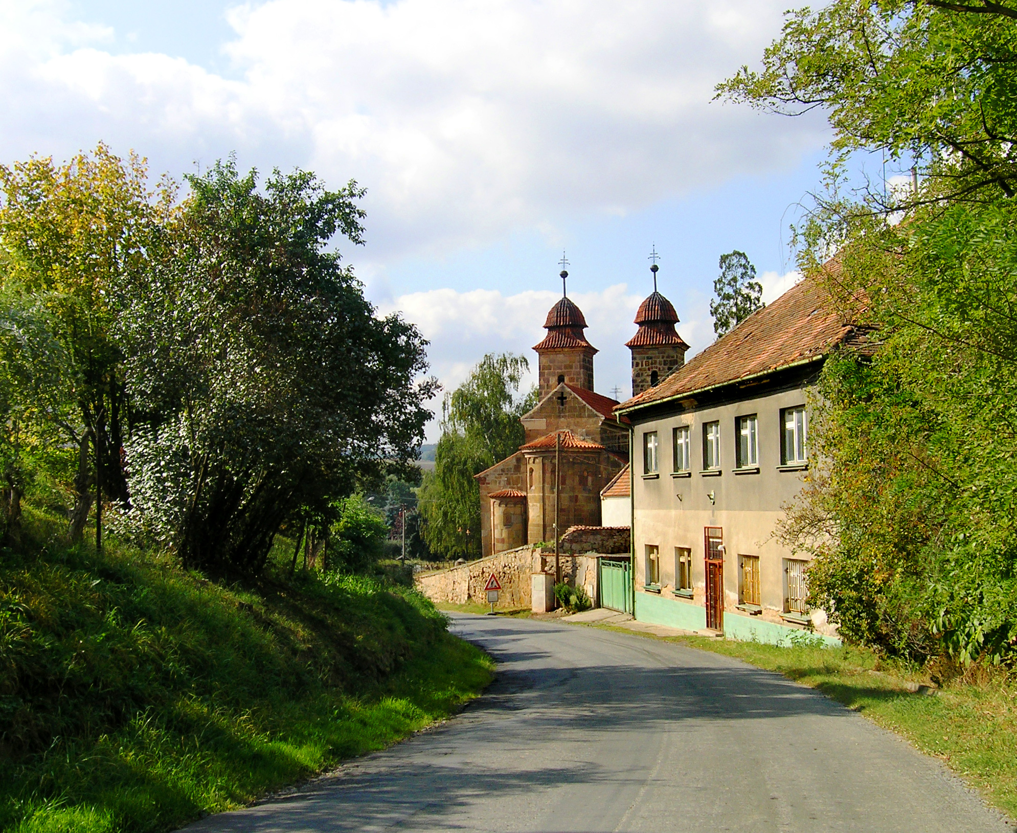 Church in Tismice, Czech Republic. Road from Vrátkov.